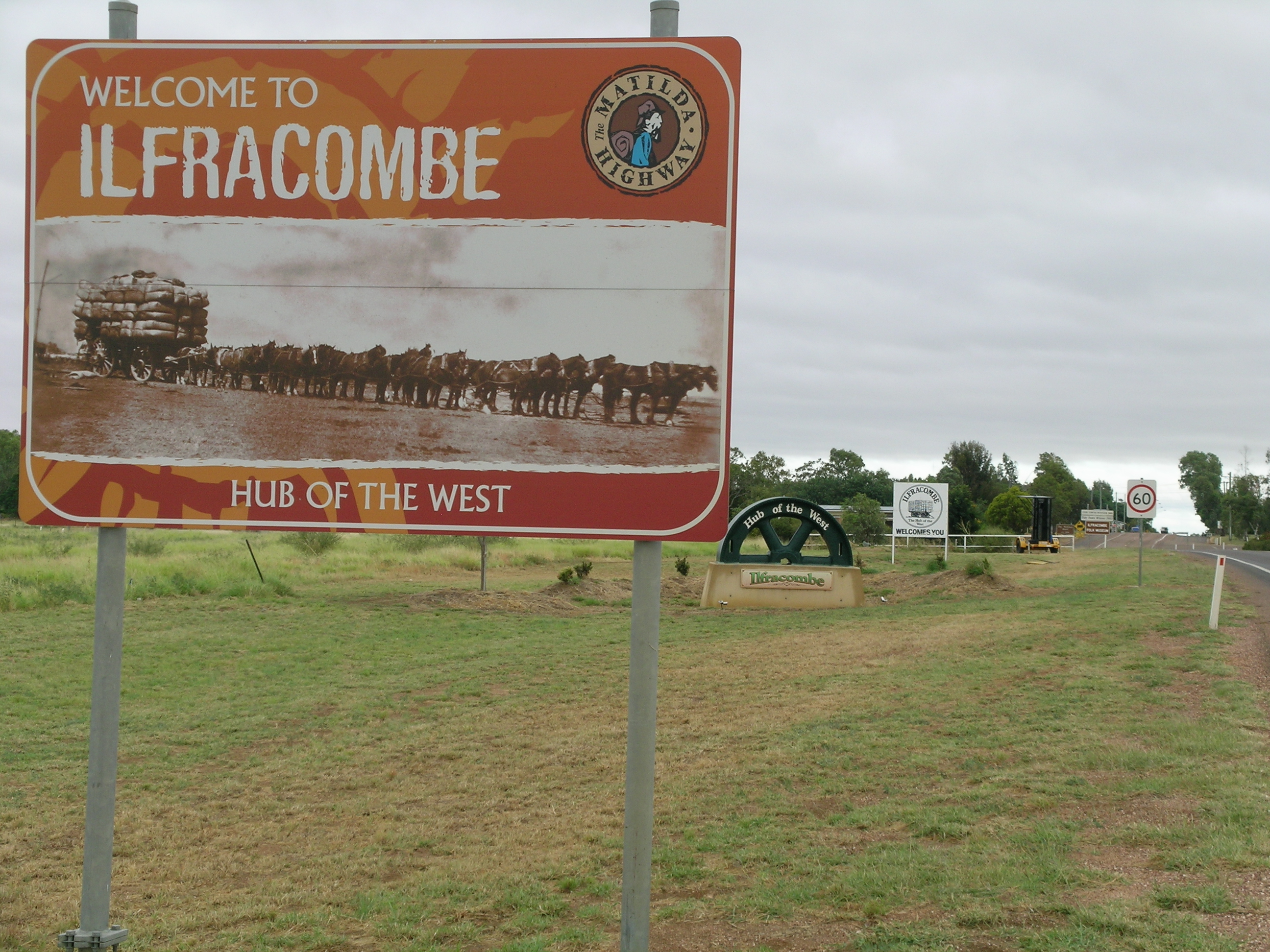 Town entrance signs to Ilfracombe, Queensland.